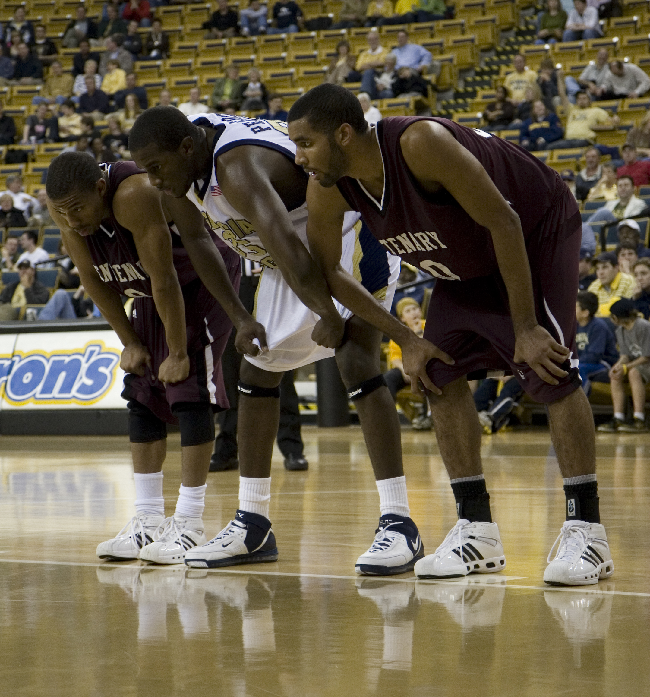 Description: A free throw at a 2006-07 Georgia Tech Yellow Jackets men's basketball team vs Centenary Gentlemen basketball game Source: [1] on [2] on flickr